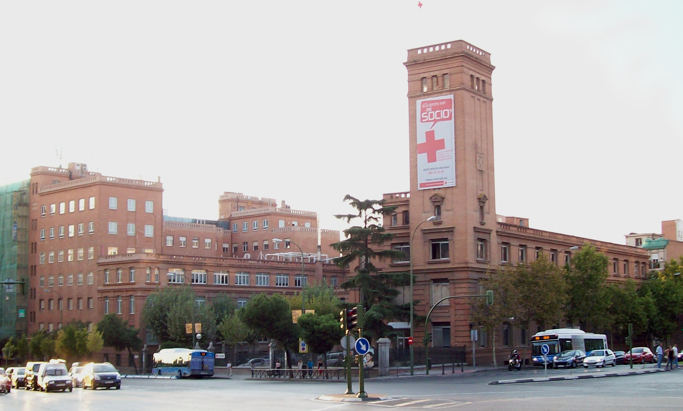 Headquarters of the Spanish Red Cross, at 26 Avenida de la Reina Victoria (street) in Moncloa-Aravaca district in Madrid. Building was projected in 1924 by architect Manuel de Cárdenas Pastor and built between 1924 and 1928.